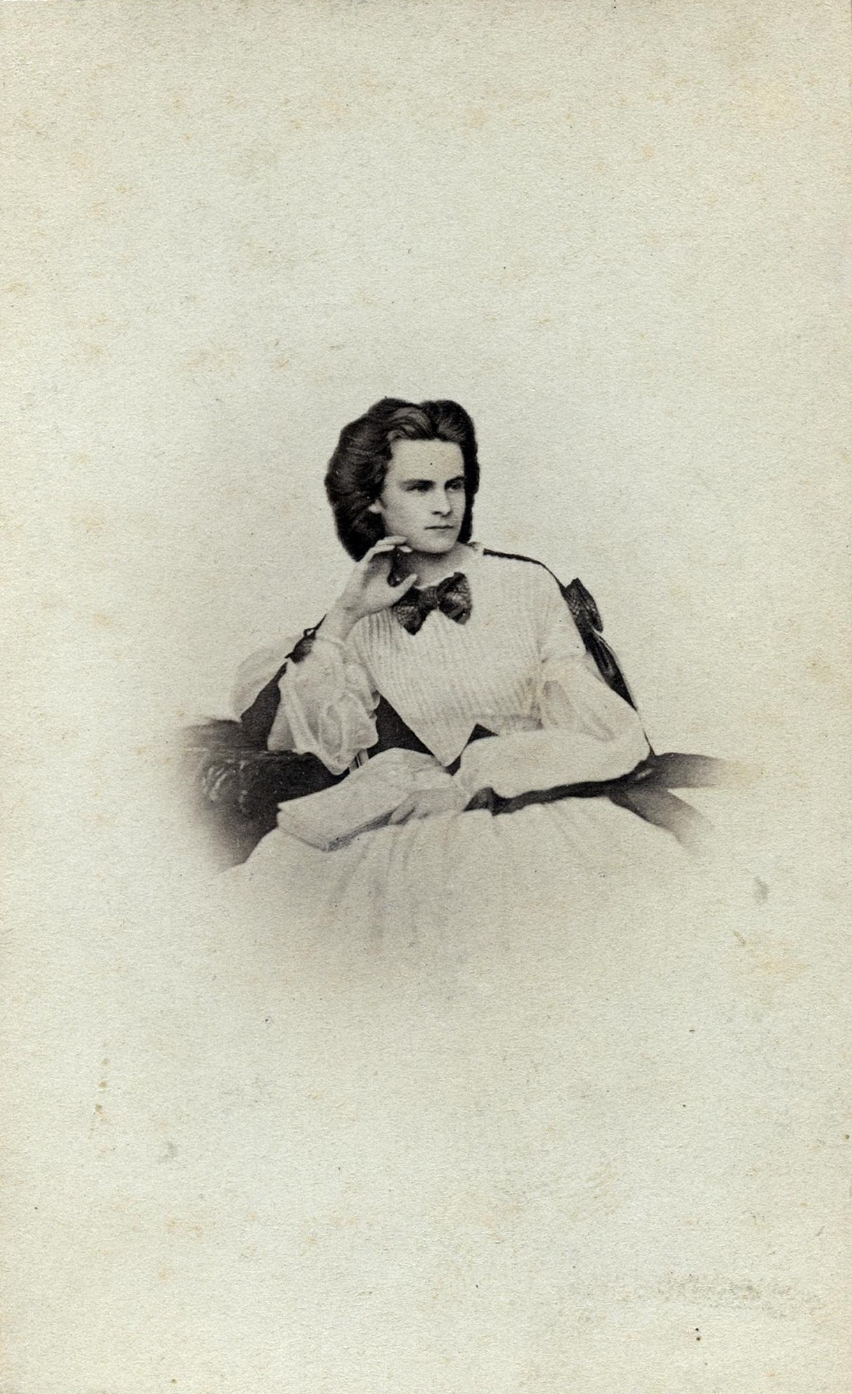 Helene of Bavaria, Princess of Thurn and Taxis